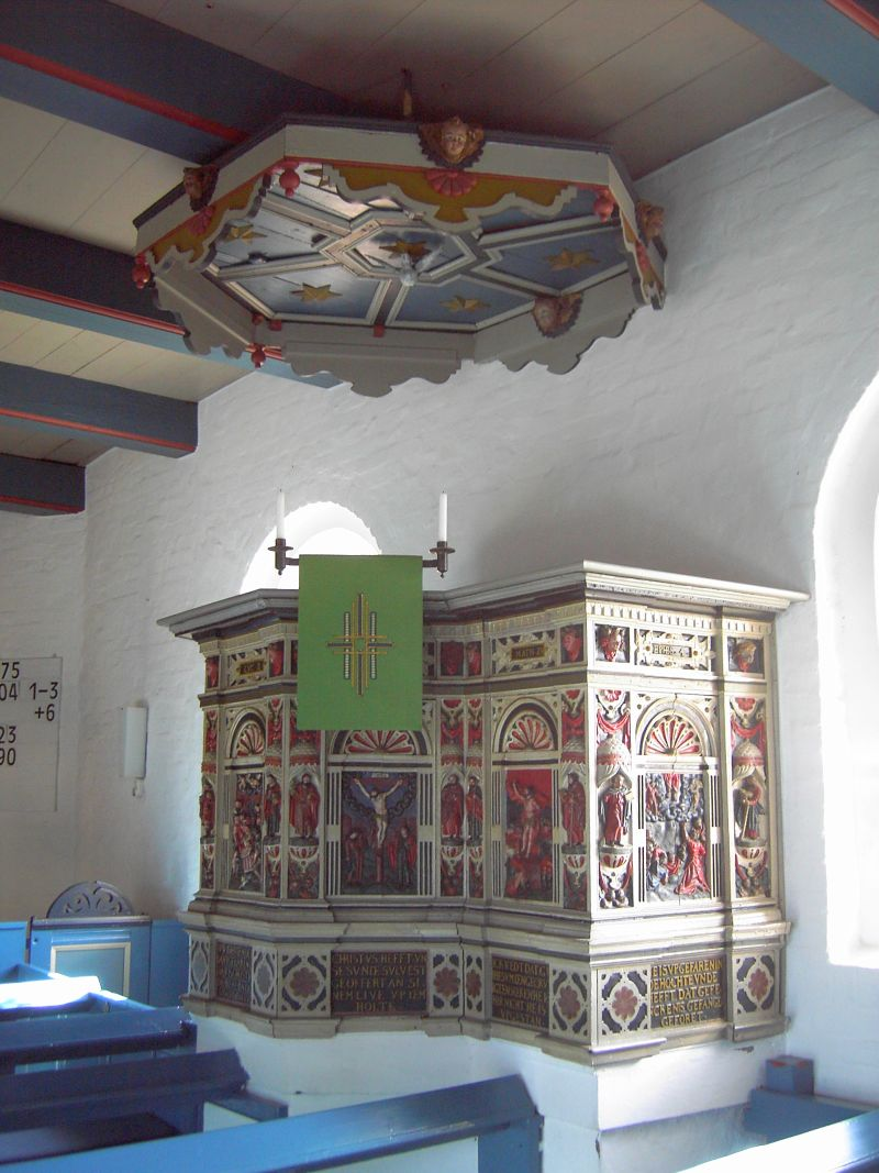 Shows the pulpit of the church on Hooge, a small german island in the North Sea. Shot by Mghamburg